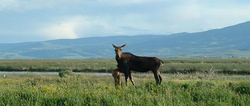 A moose and her young are seen in Bear Lake National Wildlife Refuge, which is located in southeastern Idaho in the Bear Lake Valley. Credit: USFWS